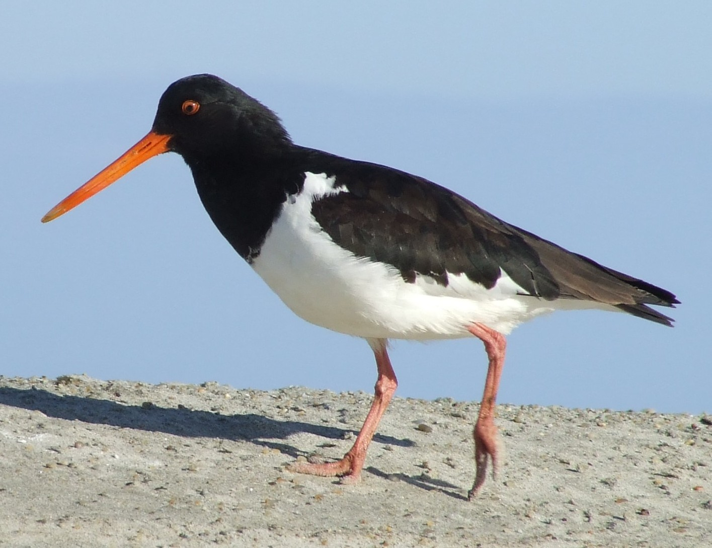 South Island Pied Oystercatcher (Haematopus finschi) photographed at Toko Mouth, Otago, New Zealand. Image an edited version of original (i.e. cropped).